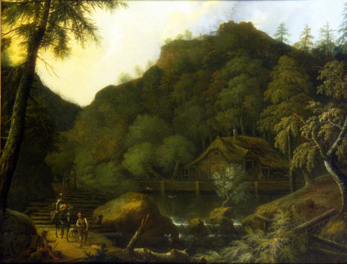 Landscape water mill